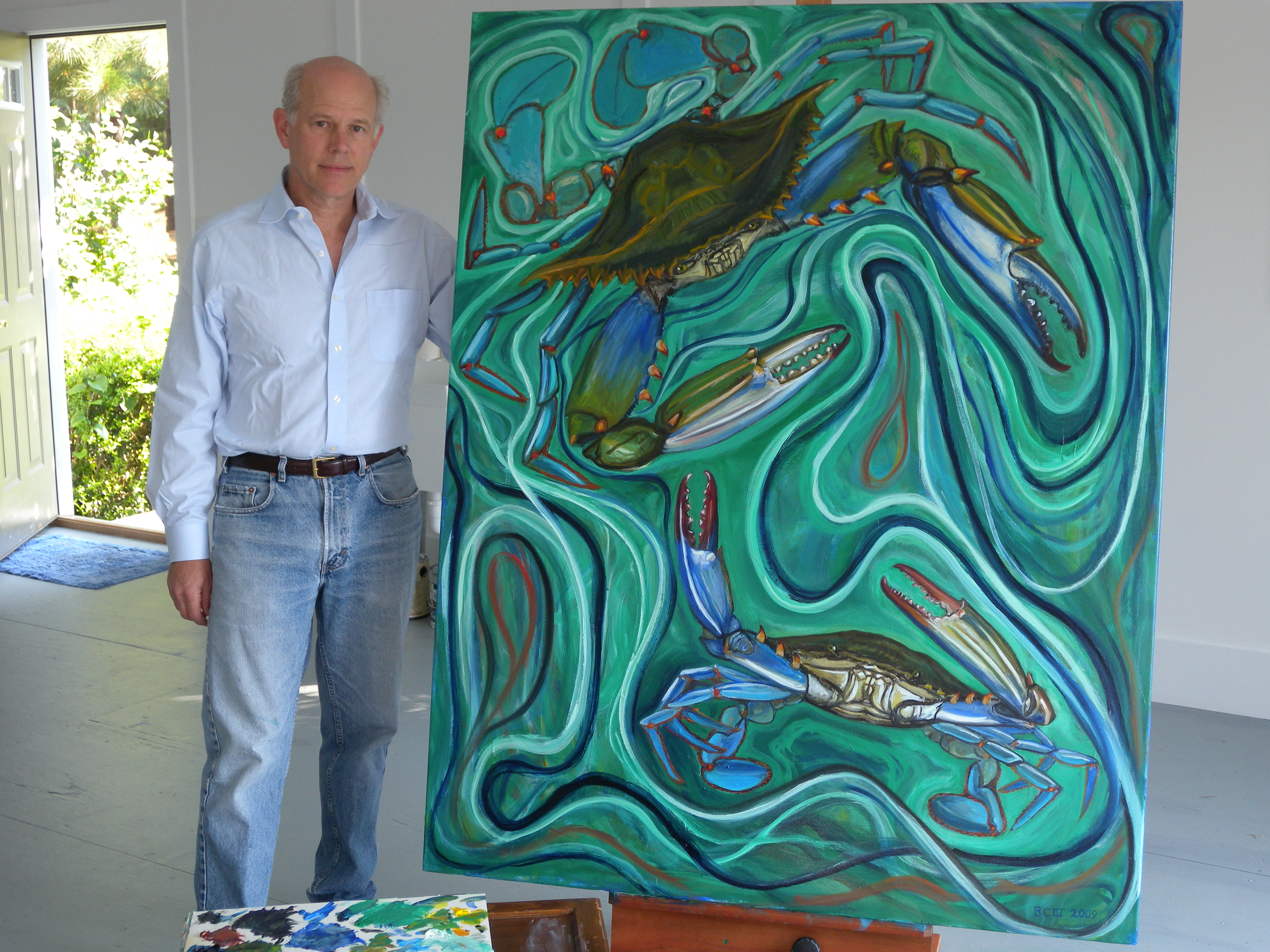 American author, painter, and editor Barnaby Conrad III standing full length next to his large painting of crabs from his "Life Aquatic" series.